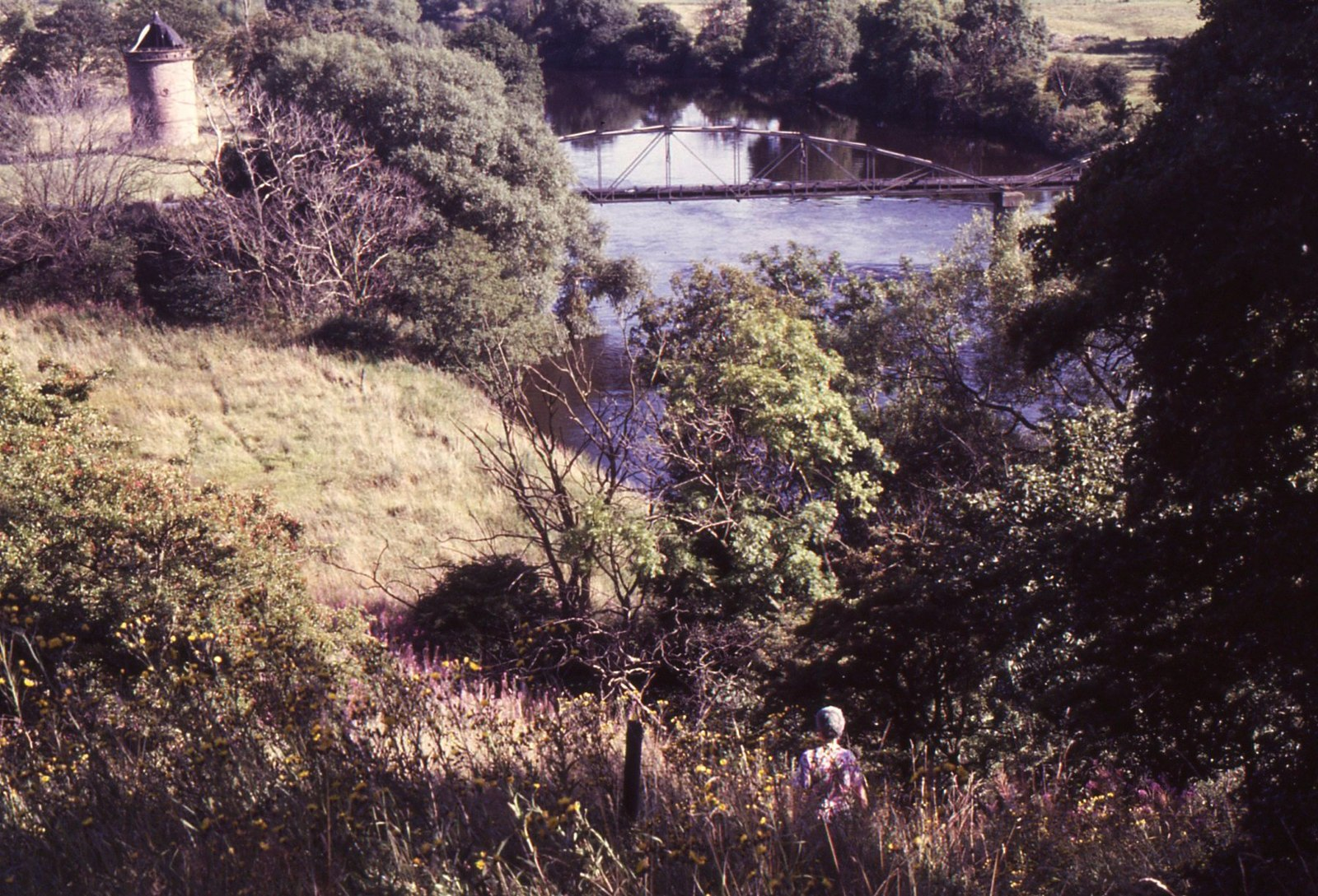 Pipe Bridge over the River Clyde and Daldowie Doocot